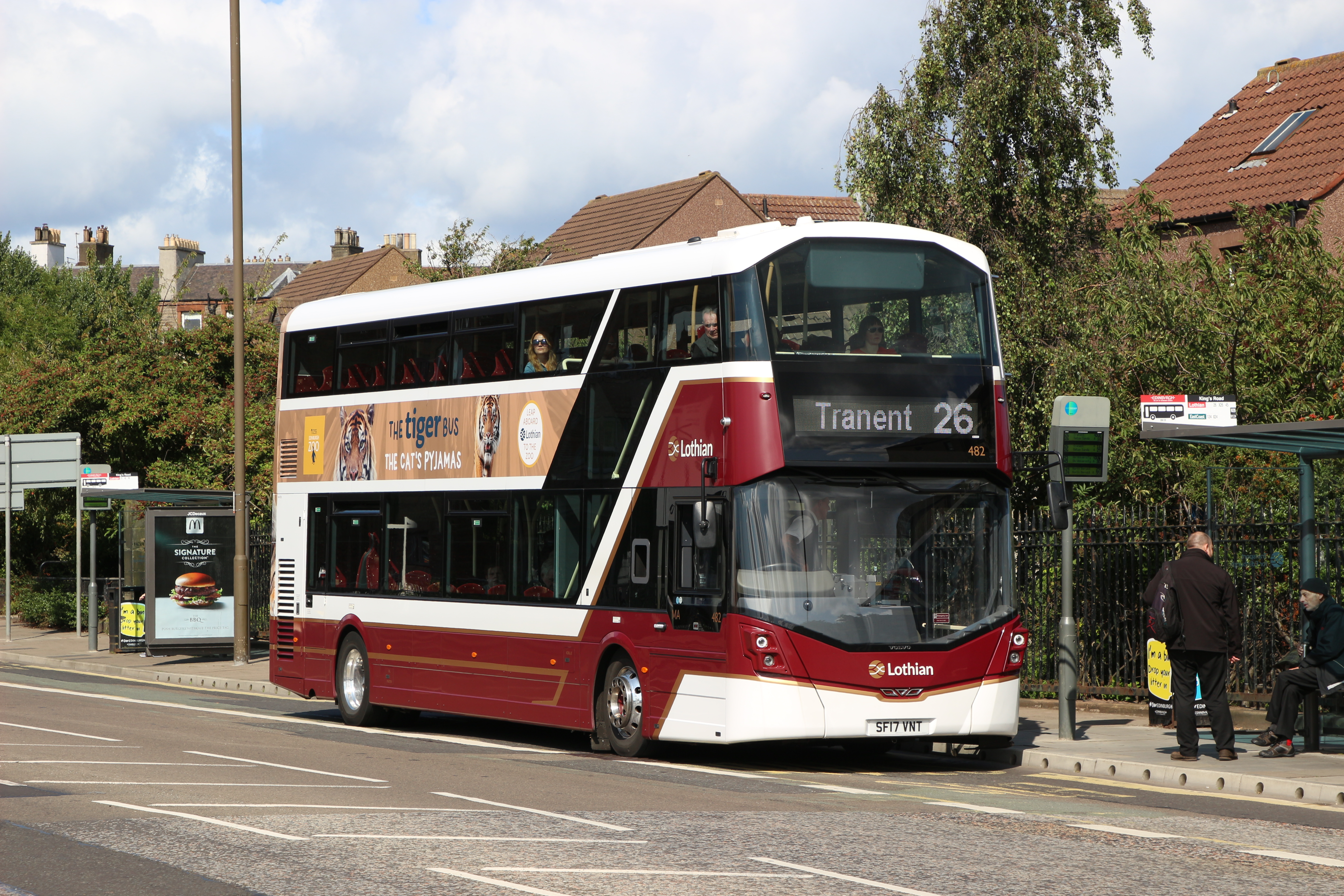 Lothian 282, a Wright Gemini 3 bodied Volvo B5TL